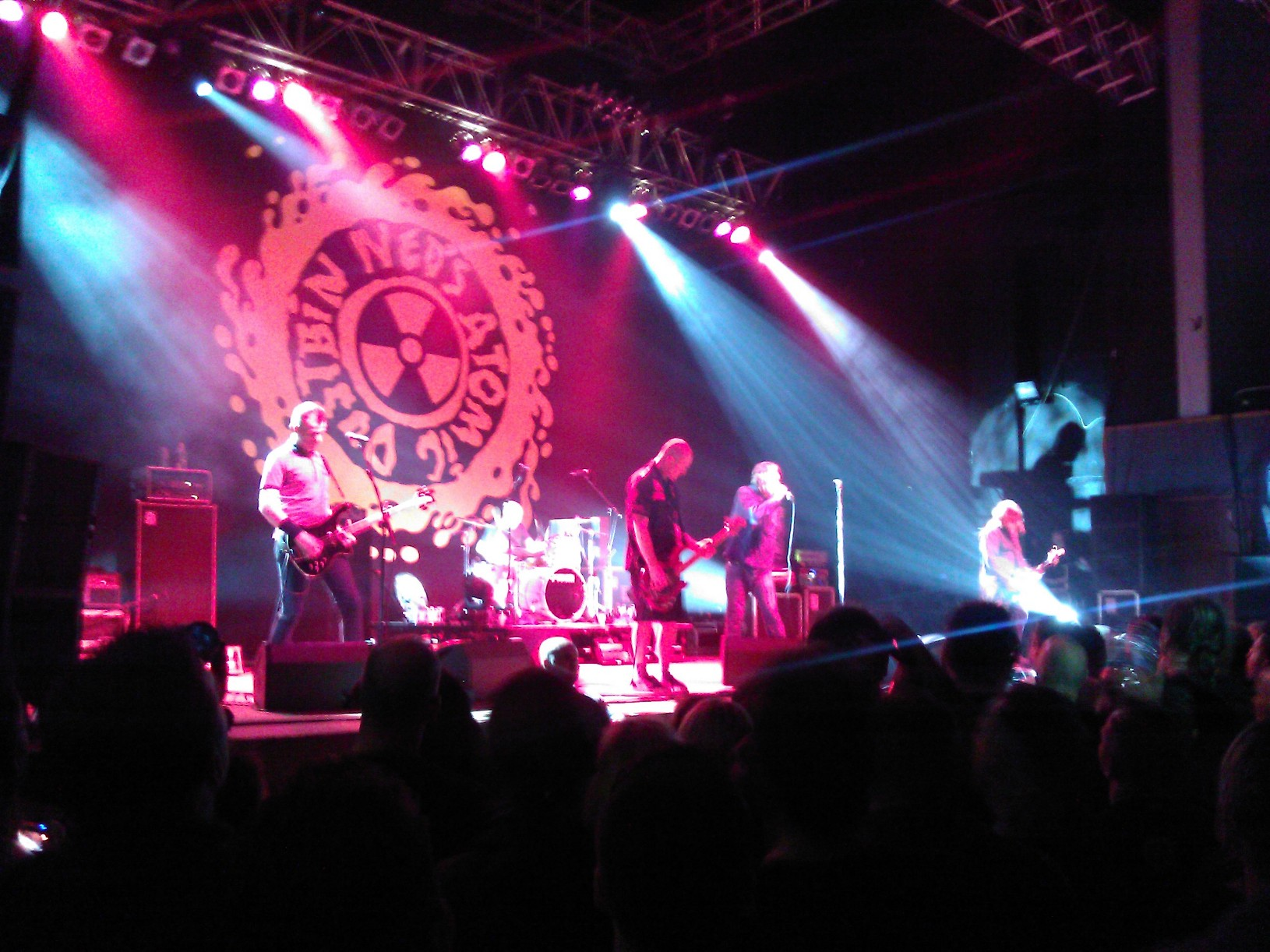 Ned's Atomic Dustbin live in Wolverhampton on 1st December 2012. I took the picture myself.